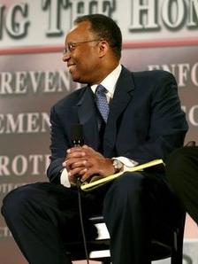 Larry Thompson, former United States Deputy Attorney General. From